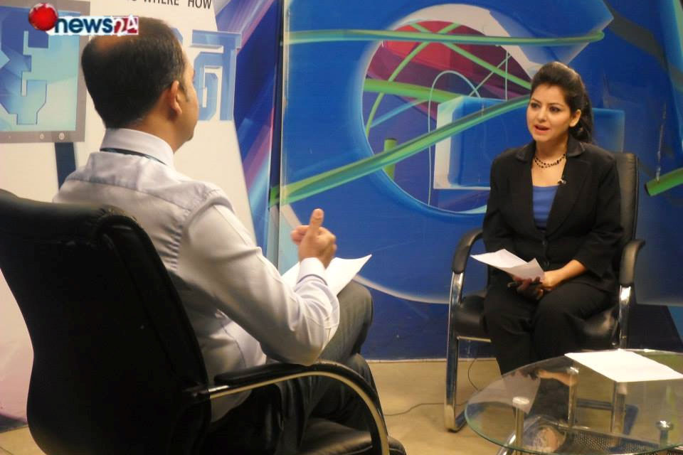 Anita Silwal taking interview at News24 studio